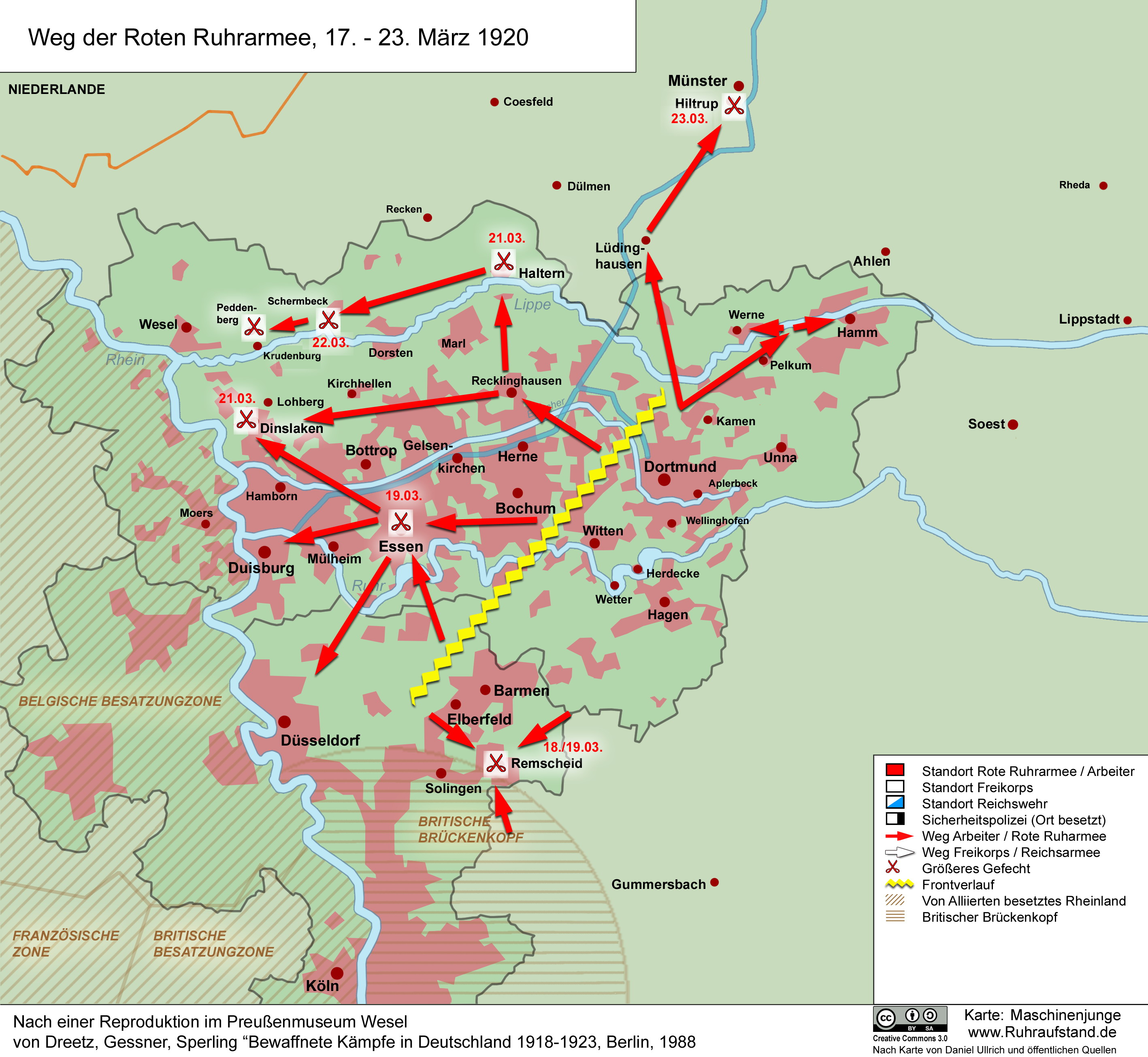 Ruhr Uprise 1920 - The way of the Red Ruhr Army, 17. - 23. March 1920. It shows the places and dates of fightings after the time of the Kapp-Lüdewitz-Putsch